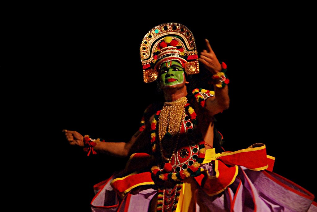 Thullal (ottamthullal) is distinct for its simplicity of presentation, wit and humour. It follows the classical principles of Natyasasthra (a treatise on art compiled in the 2nd century B.C). Ottanthullal is the most popular among its three varieties. The other two are Seethankan and Parayan Thullal. Thullal is a solo performance combining dance and recitation. Staged during temple festivals, the performer explicates the verses through expressive gestures. Themes are based on mythological stories. Humour, satire and social criticism are the hallmarks of this art form. The Thullal dancer is accompanied by a singer who repeats the verses.